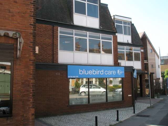 The Bluebird Café, Charles Street